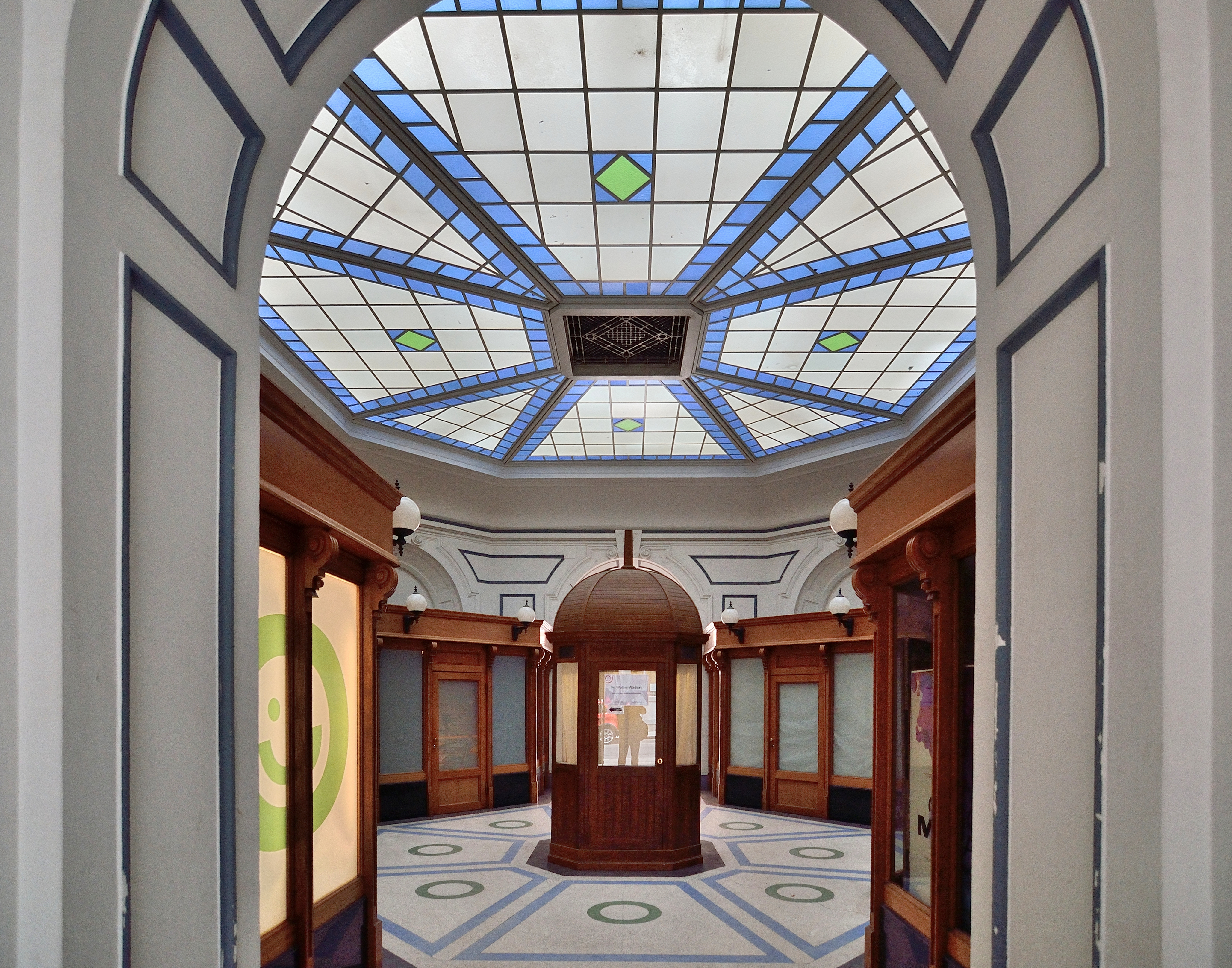 Passage area of the Van-Swieten-Hof in Vienna.